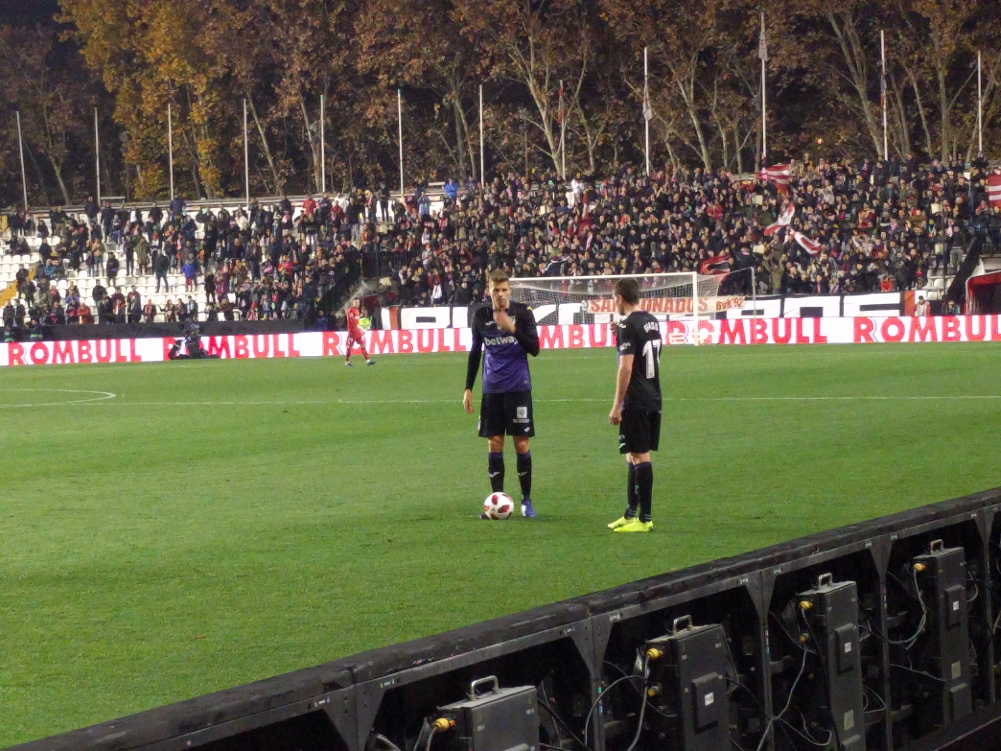 Gerard Gumbau in the match of Copa del Rey Rayo 0:1 Leganés, December 4th 2018